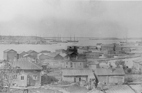 View of Uusikaupunki in the 1870's